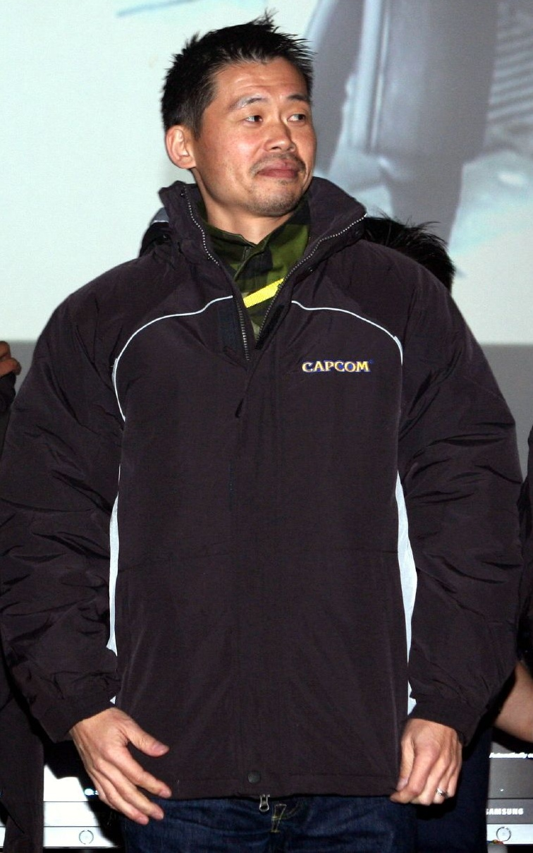 Video game designer and producer Keiji Inafune at the launch event of Capcom's Lost Planet: Extreme Condition in San Francisco, United States.